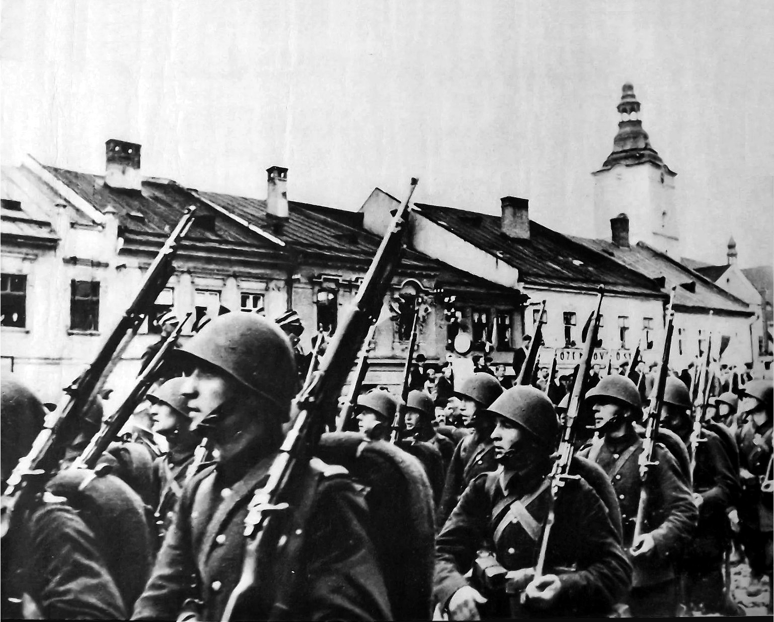 Polish infantry marching 1939.